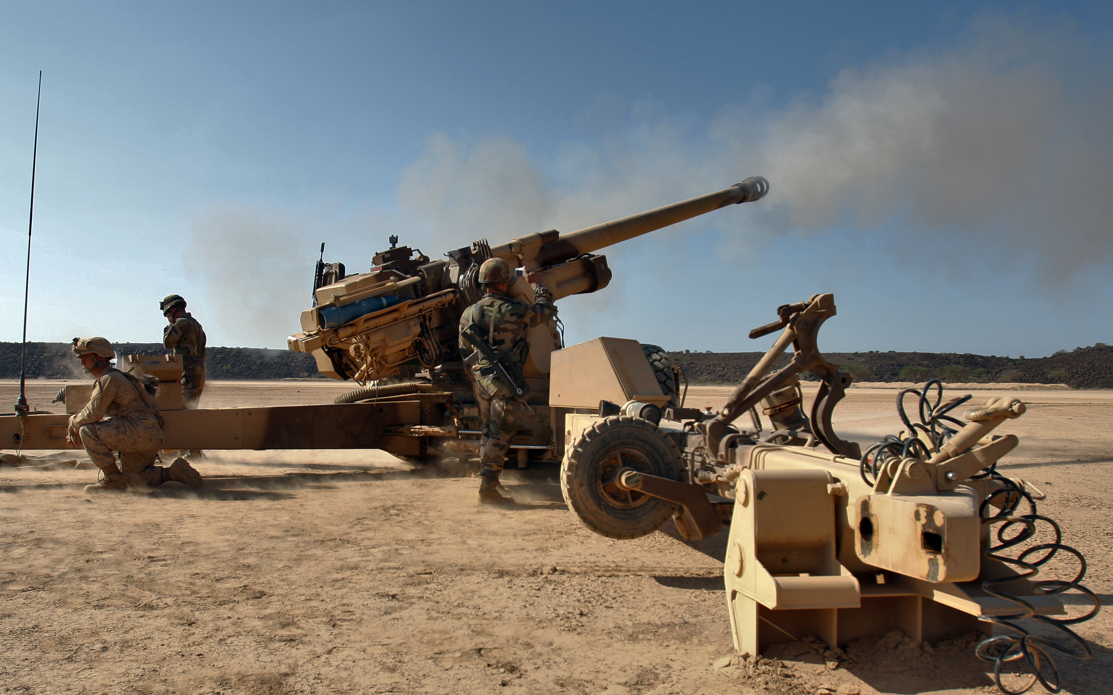 Lance Cpl. Ryan LaVallee, radio operator, Charlie Company, Battalion Landing Team 1st Battalion, 9th Marine Regiment, 24th Marine Expeditionary Unit, fires an F-1 Towed Gun howitzer from 93rd Mountain Artillery Regiment, French Army, during a bilateral training exercise in Djibouti March 23. Artillery Marines from BLT 1/9 received an opportunity to shoot several howitzers while training along with the French Army and further learn artillery call-for-fire procedures. The 24th MEU Marines performed a series of sustainment and joint exercises alongside the French and Djibouti armed service members while in Djibouti. The 24th MEU is currently on a seven month deployment aboard Nassau Amphibious Ready Group vessels as the theater reserve force for Central Command. Photo by Sgt. Alex C. Sauceda